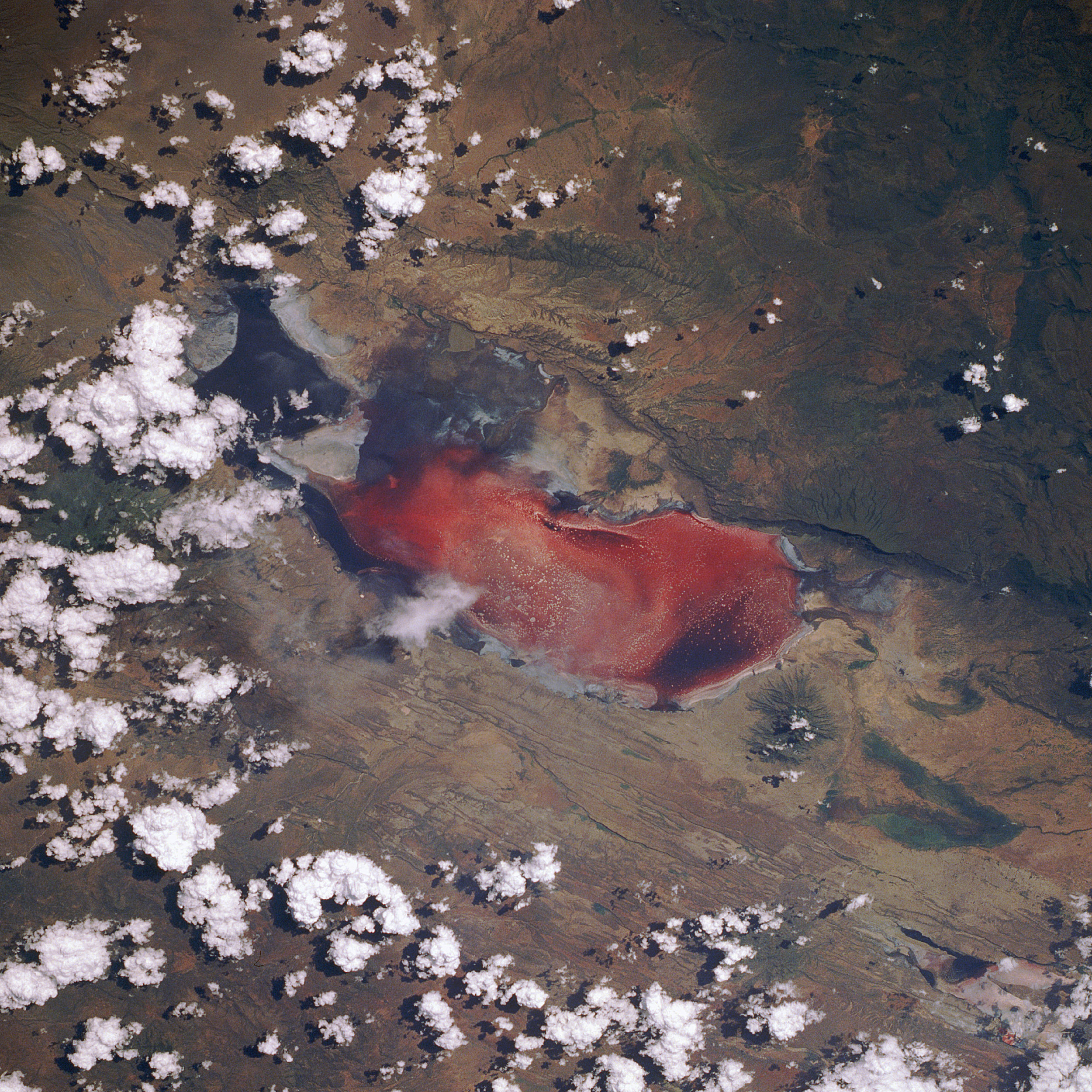 Lake Natron, Tanzania photographed from Discovery on mission STS-29.